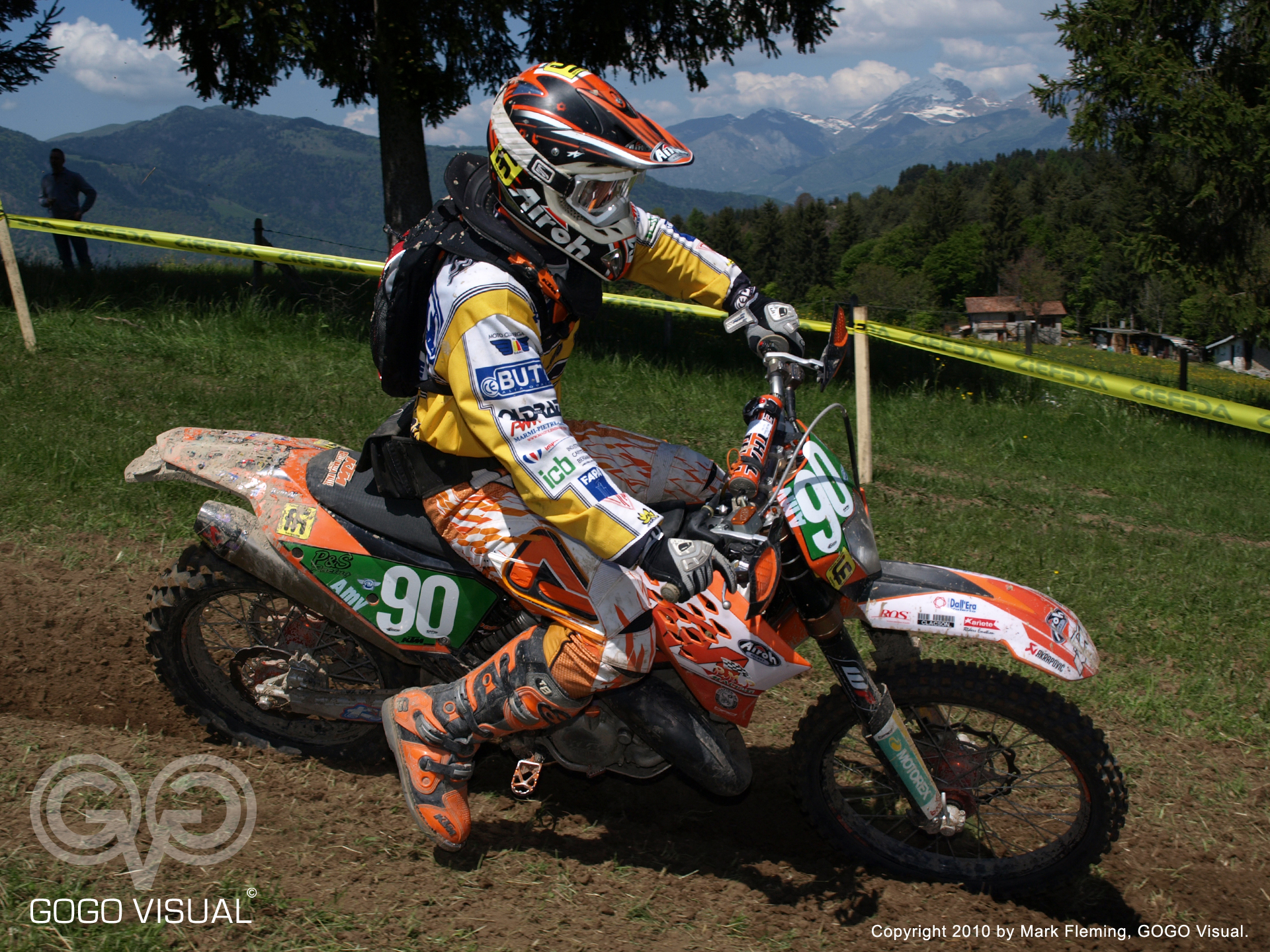 EJ - Walter Rota (ITA, KTM) at the 2010 MAXXIS FIM Enduro World Championship GP of Italy, in Lovere (41st Valli Bergamasche).